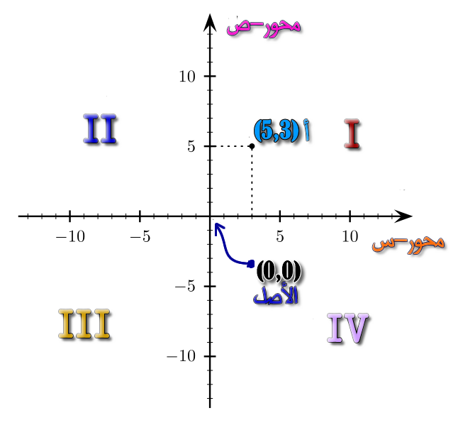 2D Cartesian coordinates